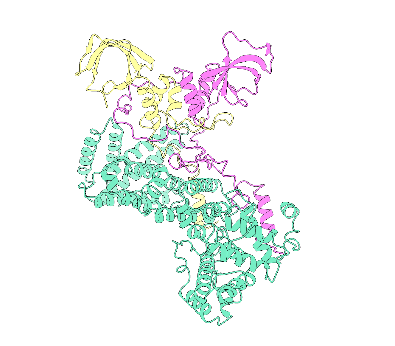 Structure of the NOT module of the human CCR4-Not complex, solved at 3.2 Å (PDB 4C0D). CNOT1 is green, CNOT2 is magenta, and CNOT3 is yellow.